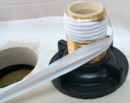 Teflon tape is wound around the pipe threading three times underneath this bathroom sink. It helps seal the areas between the pipe threads when a high pressure hose connection is screwed to this pipe. Source: here entitled "Swapping out a bathroom sink" (handyman project) Note the words "public domain" note at the top of the article. Further questions, ask me (tom sulcer) on my Wikipedia talk page here.